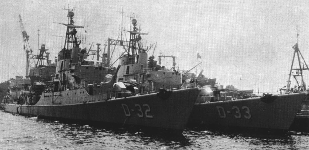 The Bolivarian Navy of Venezuela destroyers General Asturia (D-32) and Almirante García (D-33) at San Diego, California (USA), circa 1963.